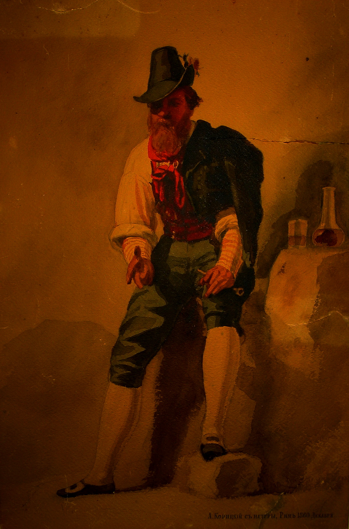 Alexander O. Koritsky's painting "With nature, Rome, 1860, December". From the home collection Fedorov Kirill.